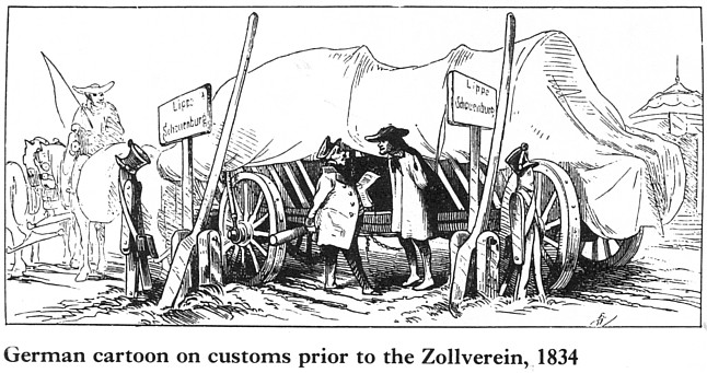 pamplet cartoon illustrating the problem of tarrifs